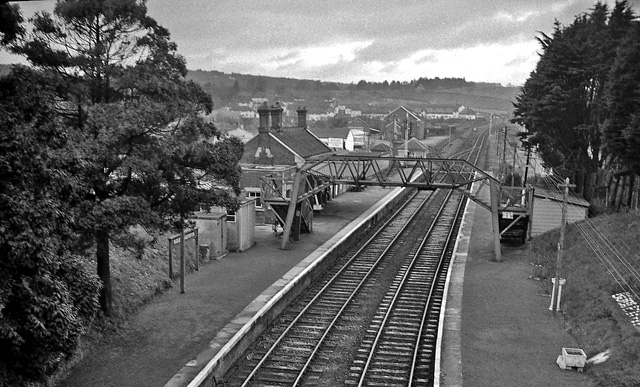 Budleigh Salterton Station. View SE, towards Tipton St Johns and Sidmouth Junction; ex-London & South Western, Sidmouth Jct. - Tipton St Johns - Exmouth line, closed entirely on 6/3/67.